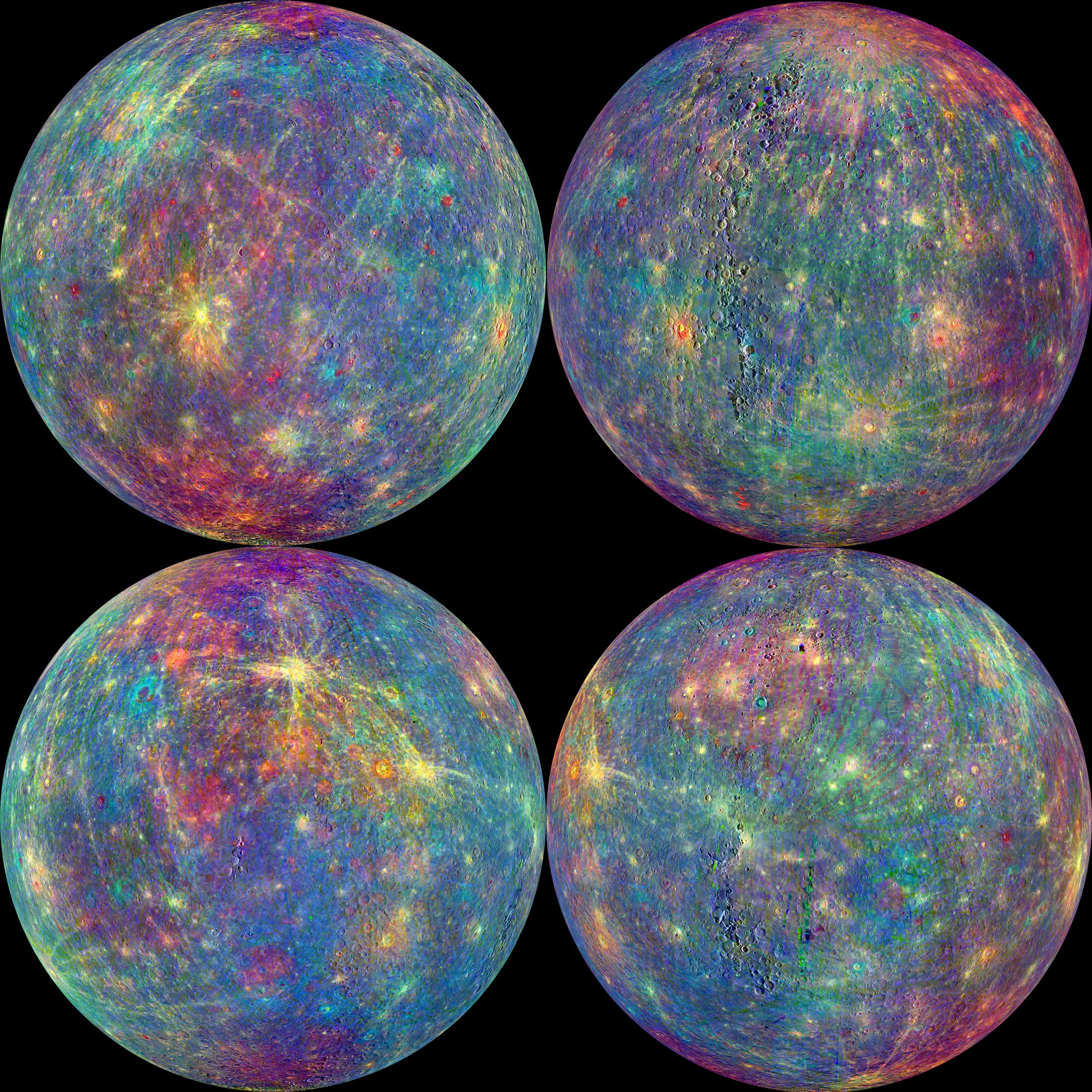 The MASCS instrument was designed to study both the exosphere and surface of Mercury. To learn more about the minerals and surface processes on Mercury, the Visual and Infrared Spectrometer (VIRS) portion of MASCS has been diligently collecting single tracks of spectral surface measurements since MESSENGER entered orbit. The track coverage is now extensive enough that the spectral properties of both broad terrains and small, distinct features such as pyroclastic vents and fresh craters can be studied. To accentuate the geological context of the spectral measurements, the MASCS data have been overlain on the MDIS monochrome mosaic. Click on the image to explore the colorful diversity of surface materials in more detail! The MESSENGER spacecraft is the first ever to orbit the planet Mercury, and the spacecraft's seven scientific instruments and radio science investigation are unraveling the history and evolution of the Solar System's innermost planet. In the mission's more than four years of orbital operations, MESSENGER has acquired over 250,000 images and extensive other data sets. MESSENGER's highly successful orbital mission is about to come to an end, as the spacecraft runs out of propellant and the force of solar gravity causes it to impact the surface of Mercury in April 2015.